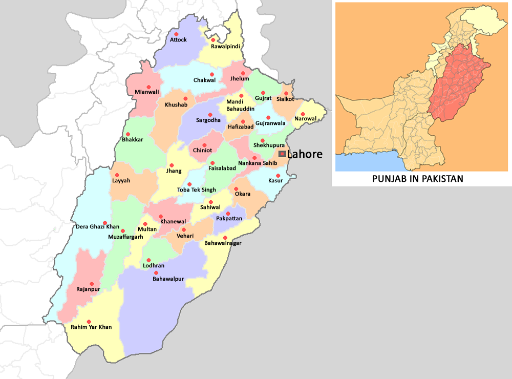 Punjab_Locator_Map with Provincial Capital (Lahore) and District Headquarters.